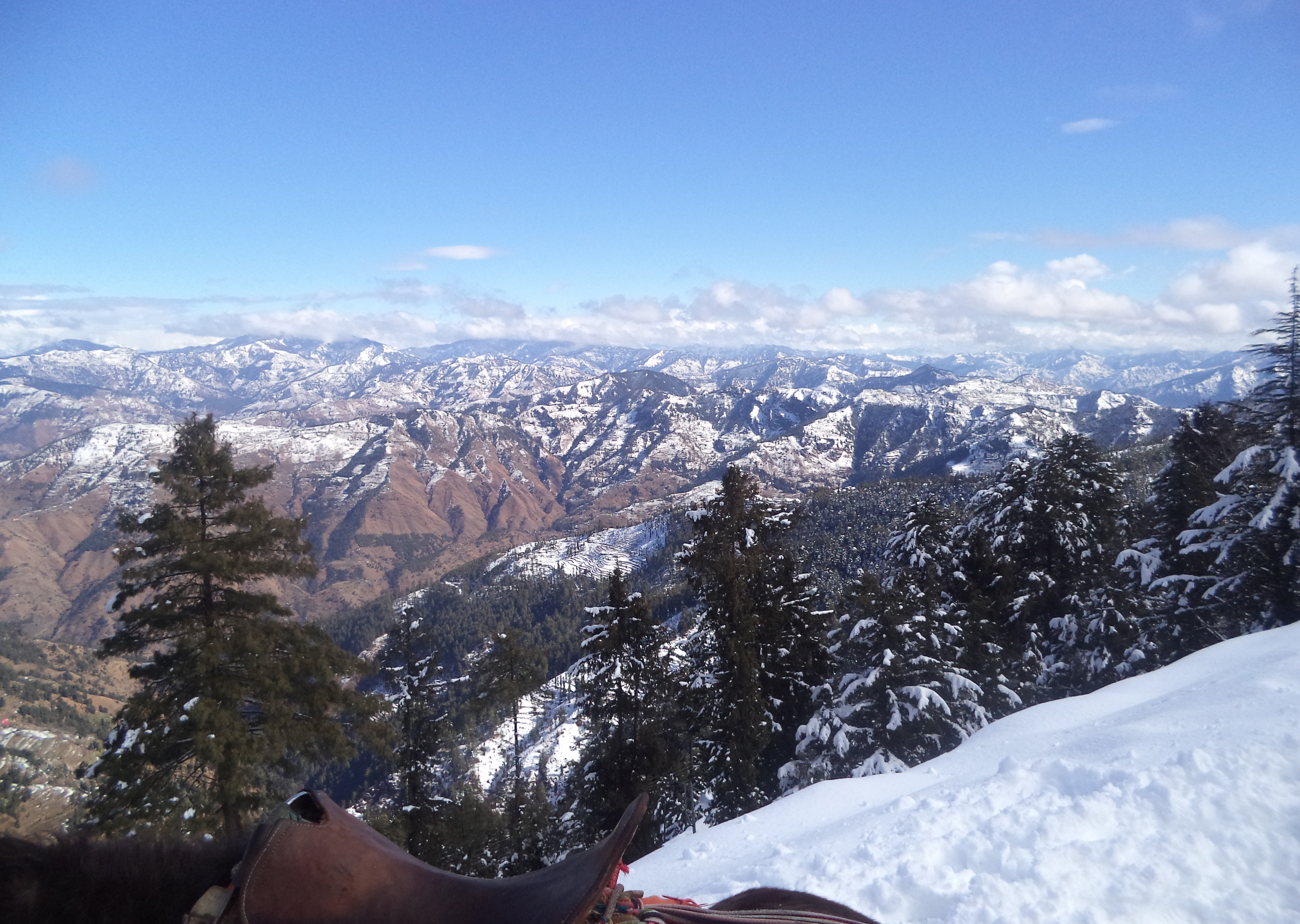 Great Himalayan National Park